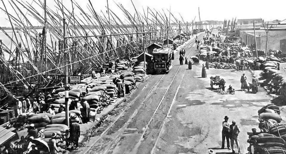 Port of Rawd Al Faraj